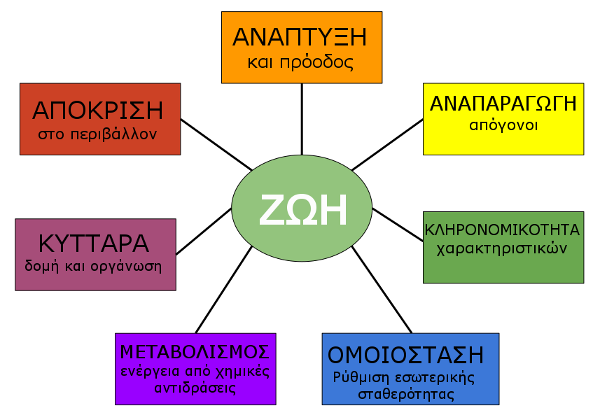 Translation of File:Characteristics of life.svg into Greek.